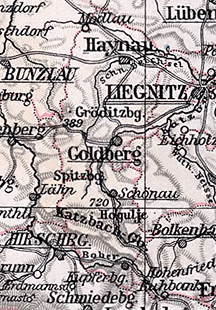 Detail from a map of Silesia.